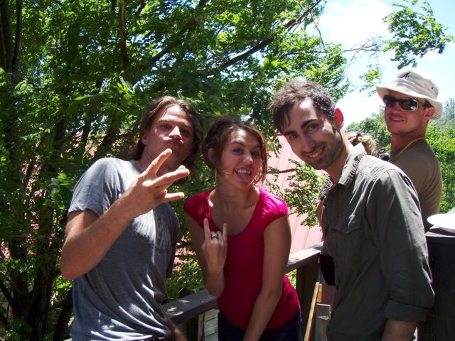 Miley Cyrus, in a red blouse and jeans, along with some of the crew members in the set of Hannah Montana: The Movie.